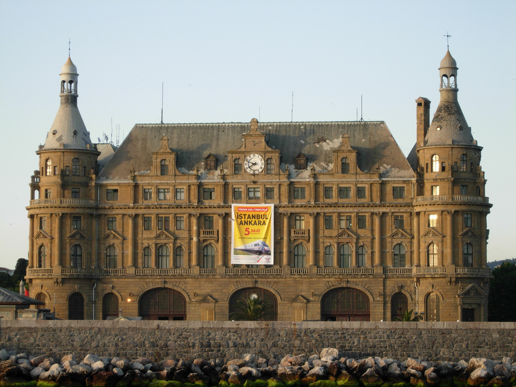 Advertising the High Speed Train to Ankara.